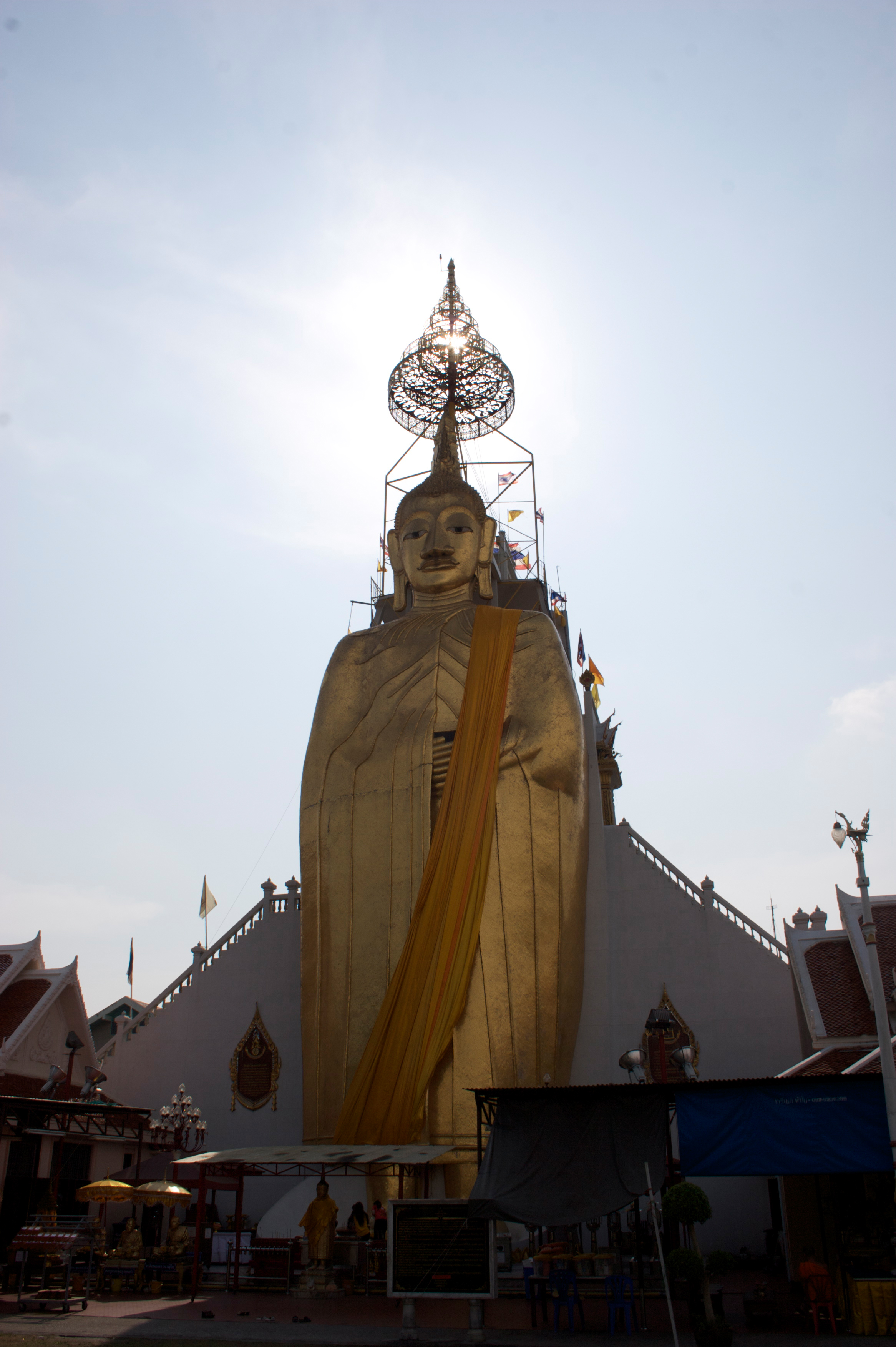 Wat Intharawihan Buddha